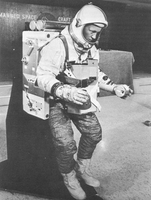 Demonstration of the astronaut maneuvering unit. (NASA Photo S-66-32550, May 12, 1966.)